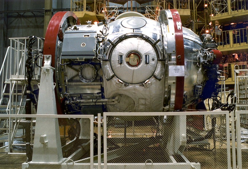 One of a series of three photos of the next station module that will launch--the Russian Docking Compartment, named Pirs, the Russian word for pier. The module is planned for launch from Baikonur Sept. 14, and to dock with the station on Sept. 16. It will serve as a Russian airlock for the station and also will provide a docking port for Soyuz or Progress craft arriving at the station. This image shows the Pirs under construction at Energia in Moscow.